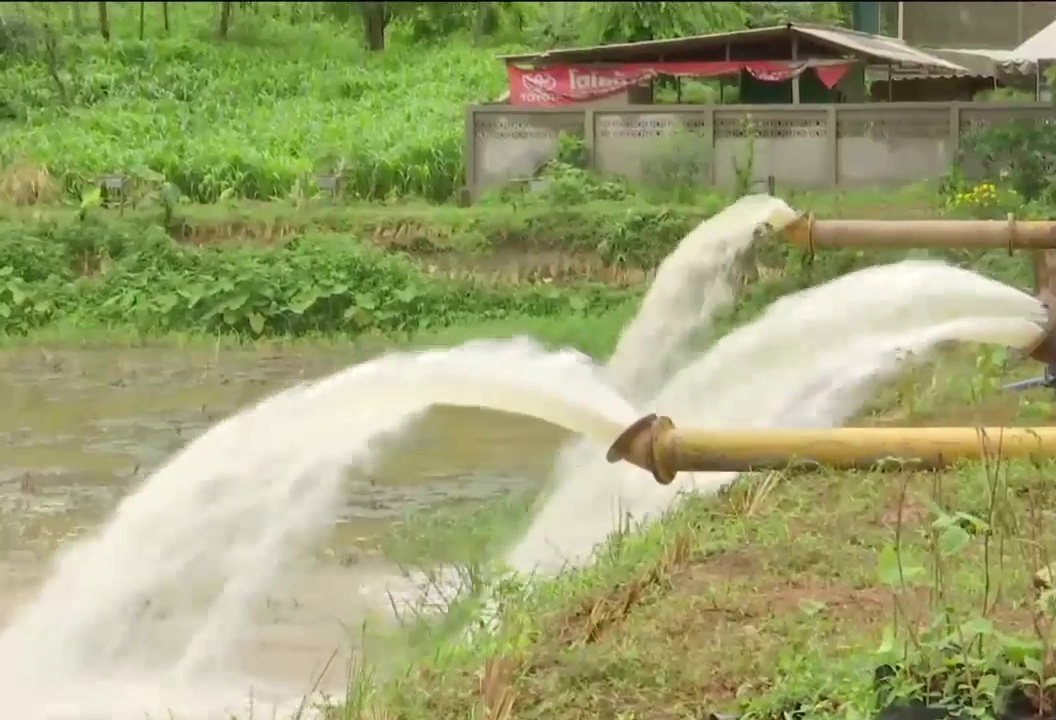 Pumps are used to divert water from lakes that drain the Tham Luang cave, in an effort to reduce water levels in the cave during June–July 2018 rescue operations.